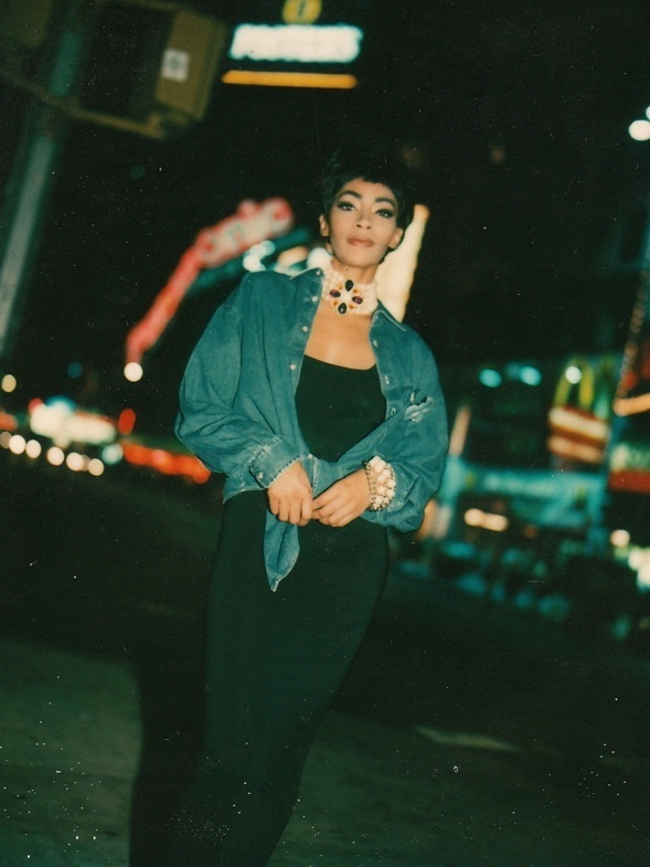 Jody Watley Harper's Bazaar Candid 1991